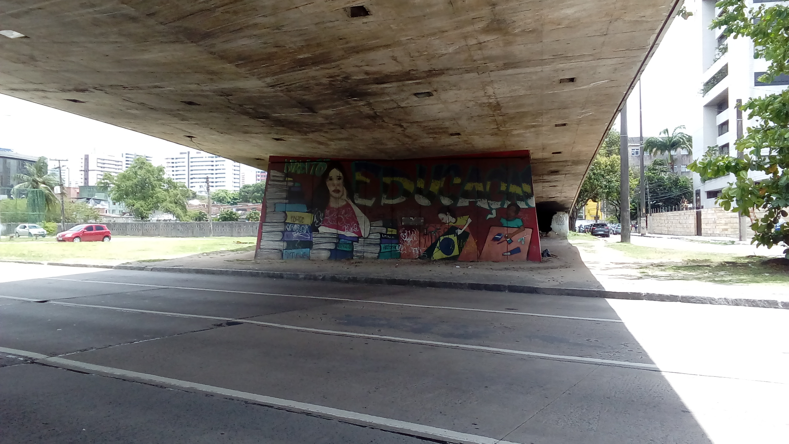 Recife/PE